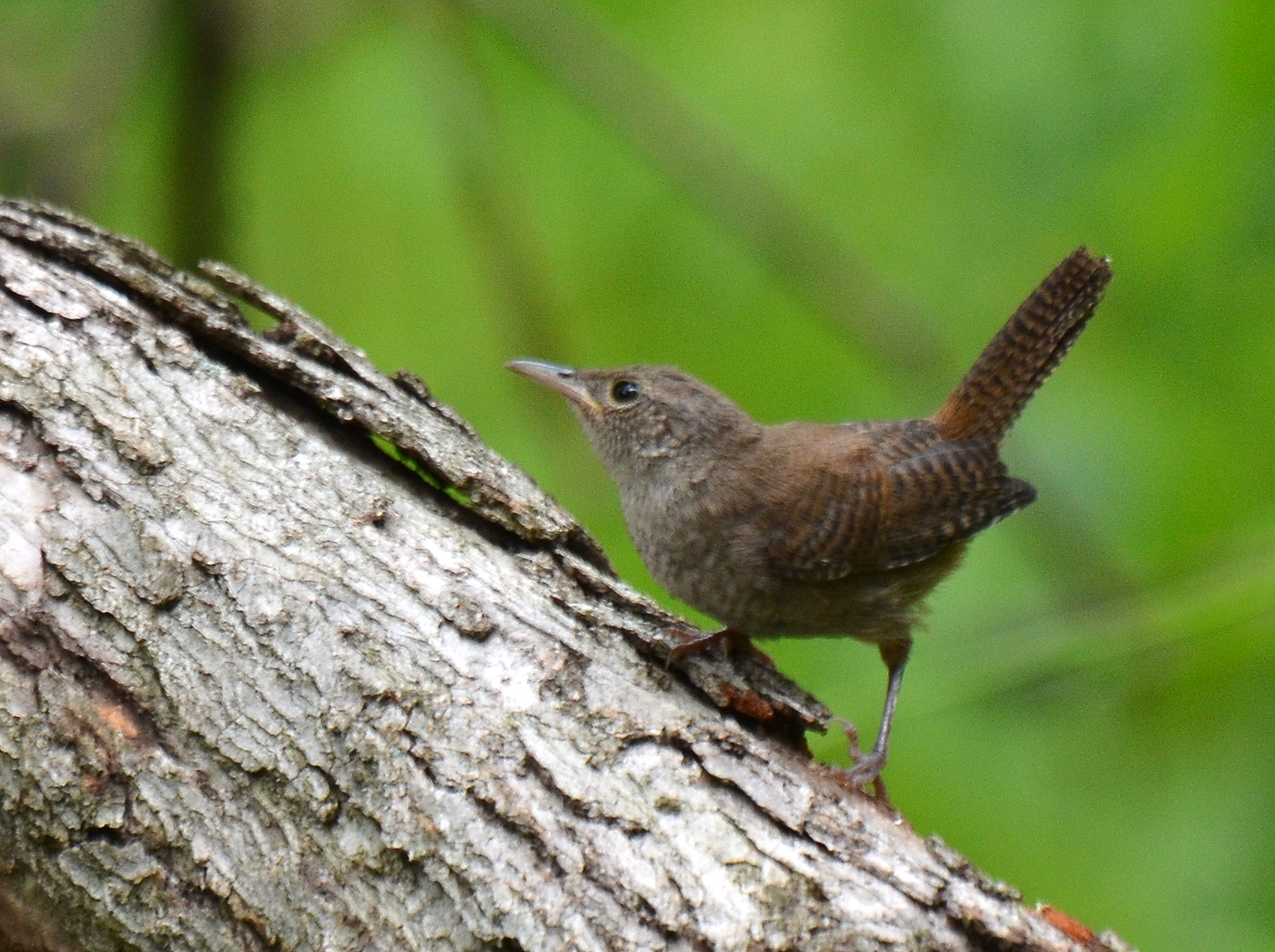 Hickory Nut FP Cary, IL